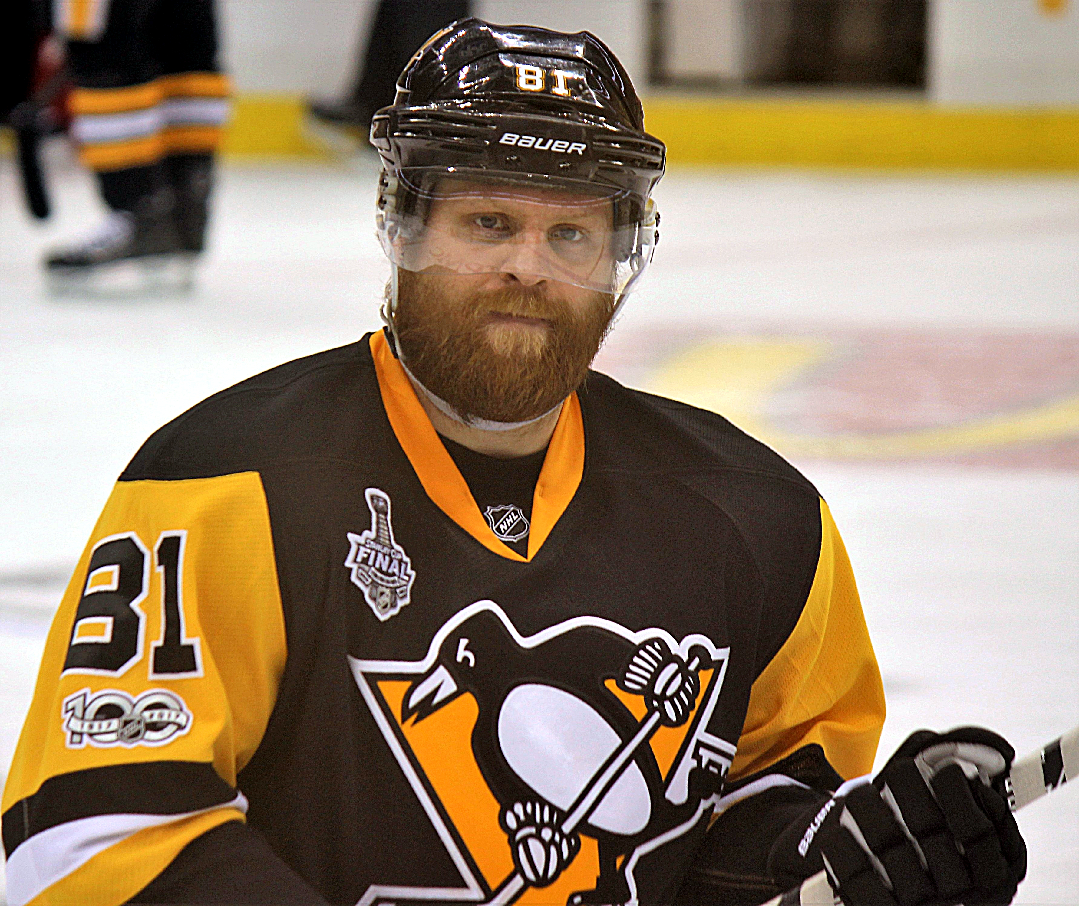 Pittsburgh Penguins forward Phil Kessel.